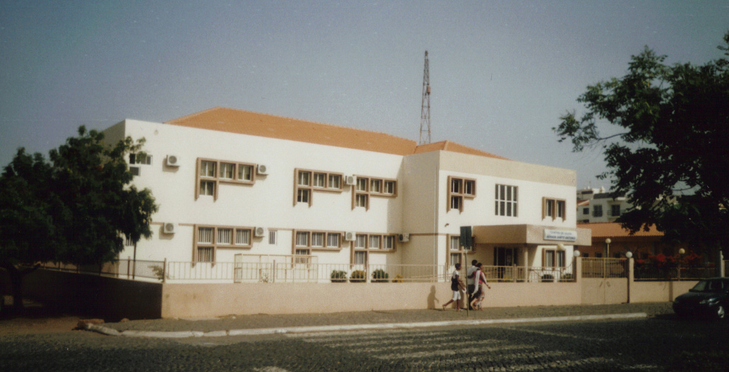 Medical Clinic, Achada de Santo António, Praia, Cape Verde.